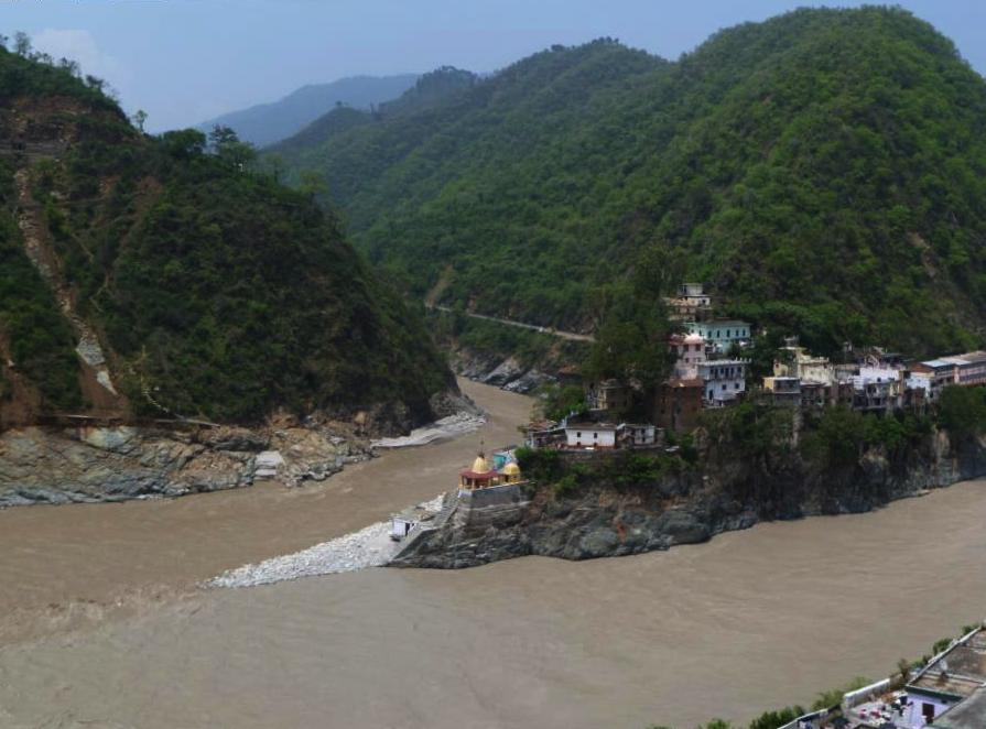 confluence of Alaknanda (bottom, flowing in from right) and Mandakini River (flowing in from top - North) at Rudraprayag. the Chamundi mandir (temple) at the confluence can be seen. the scene is almost unrecognizable compared to what it was like before 17 June 2013. there used to be a footbridge (jhula) over the mandakini that was washed away in the 2013 Uttarakhand floods. the stones at the bottom of the stairs were not there, and there was a viewing gallery, and a very large rock called the Narad Shila.